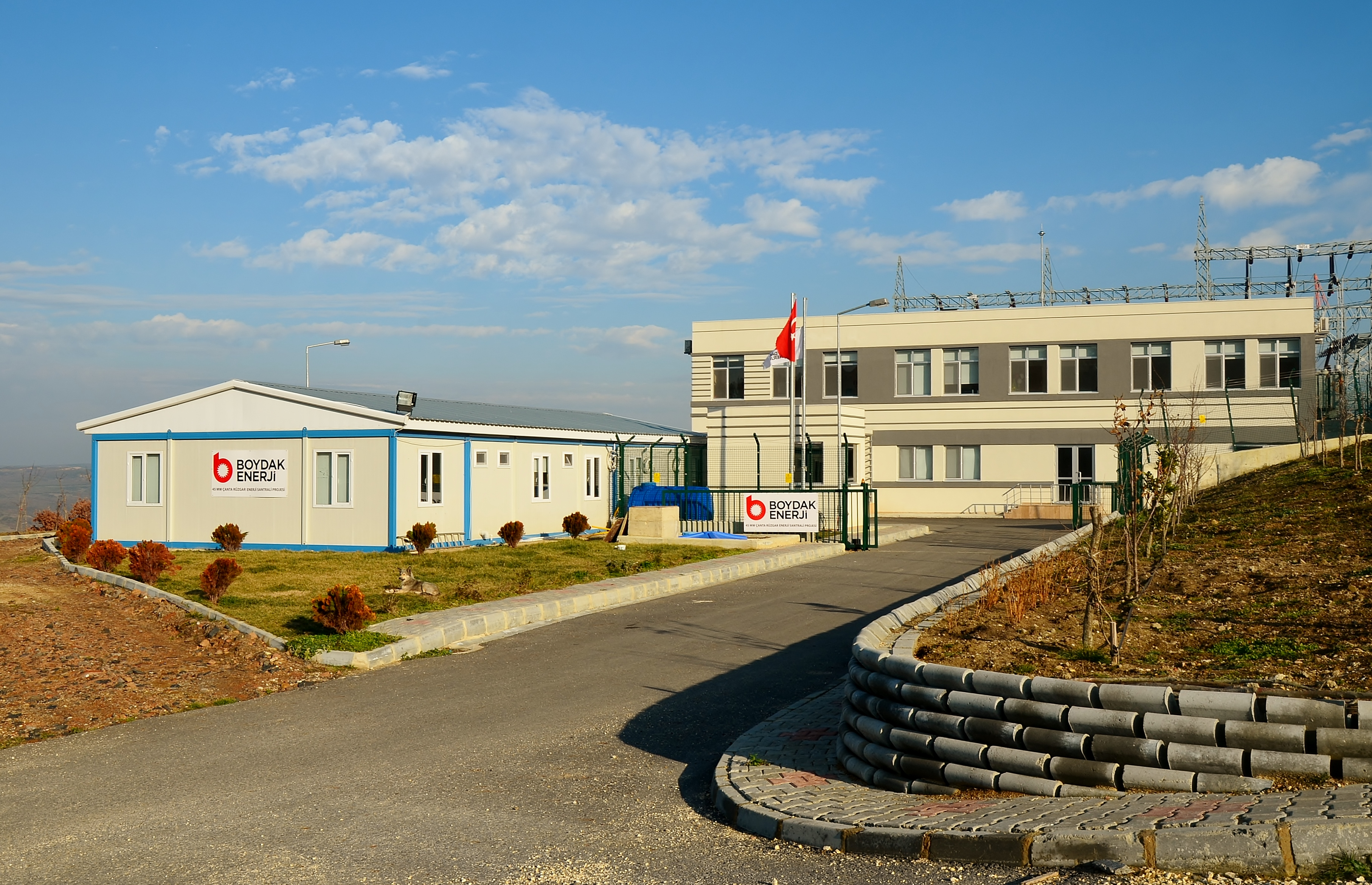 Çanta Wind Farm of Boydak Energy Co. at Çanta, Silivri in Istanbul, Turkey